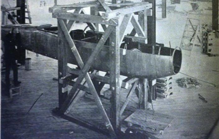 Birch plywood airplane fuselage construction